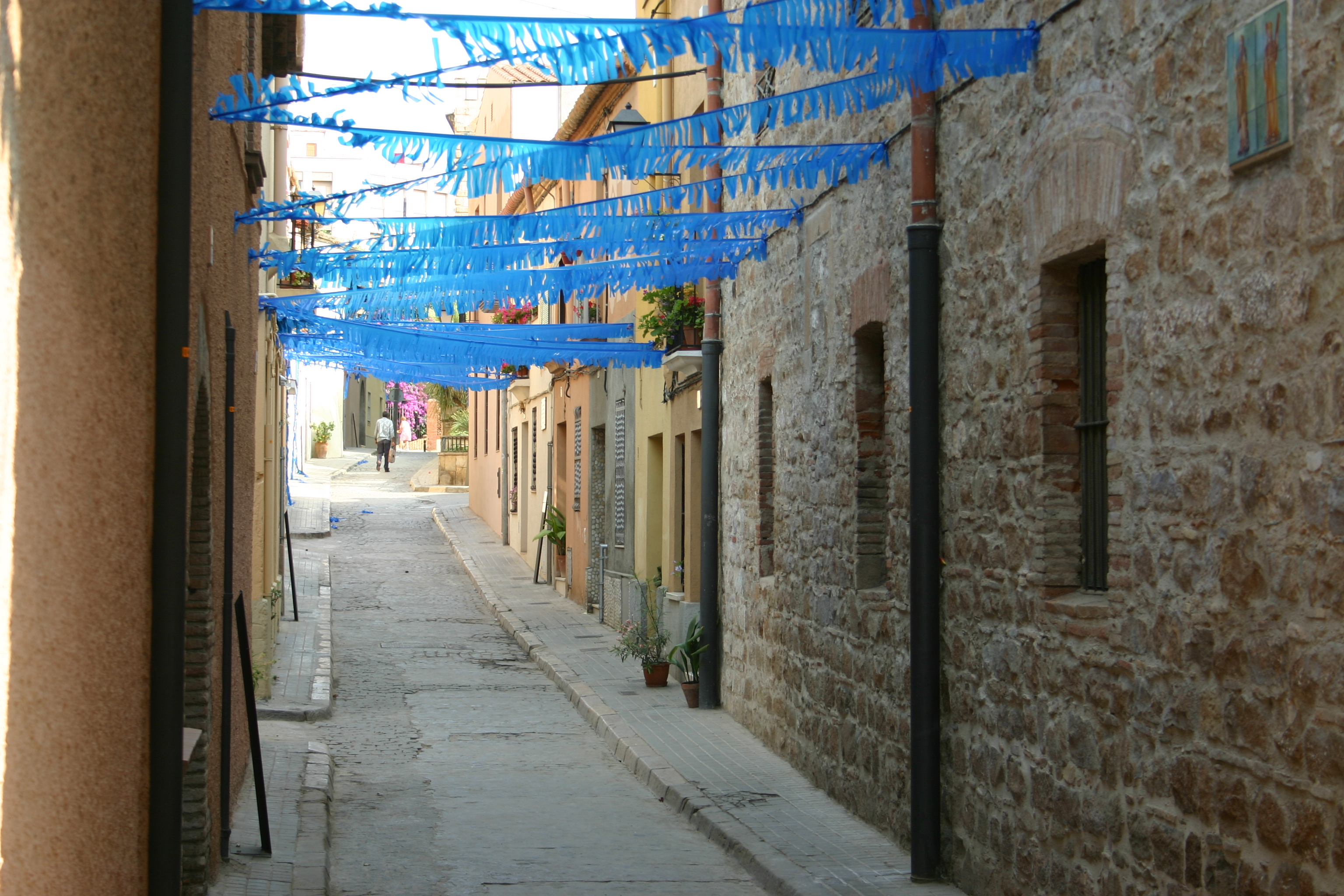 Xipreret street